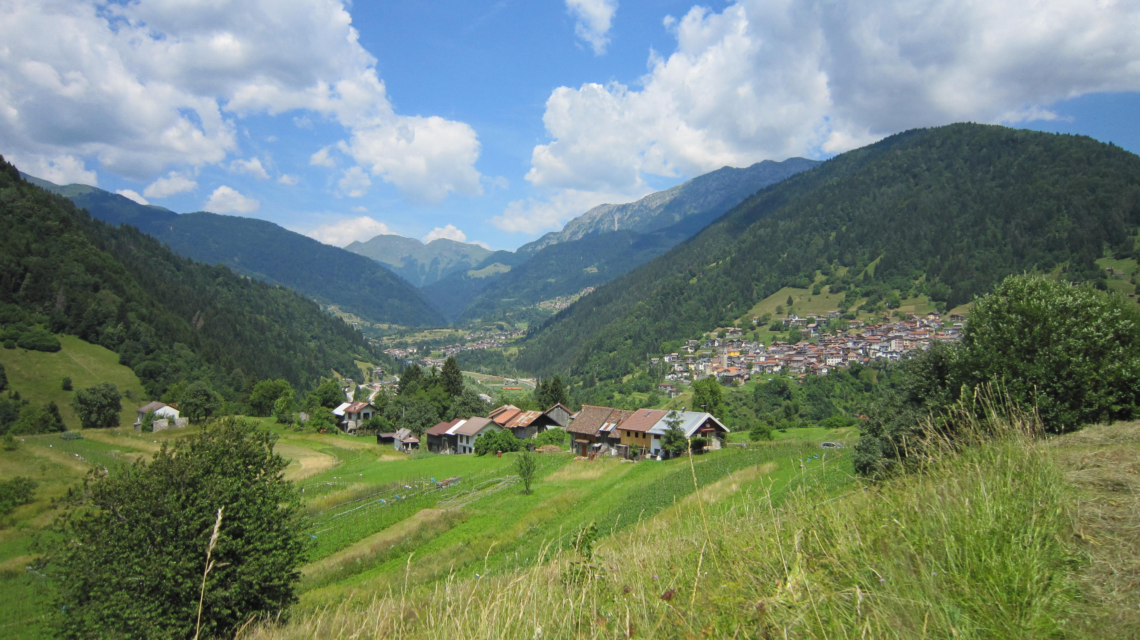 dior